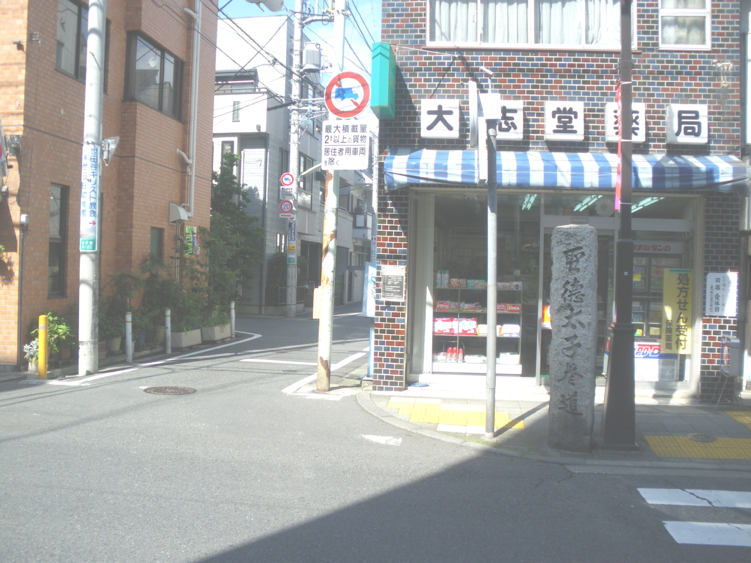 Ensenji Entrance(Taishido,Setagaya,Tokyo)